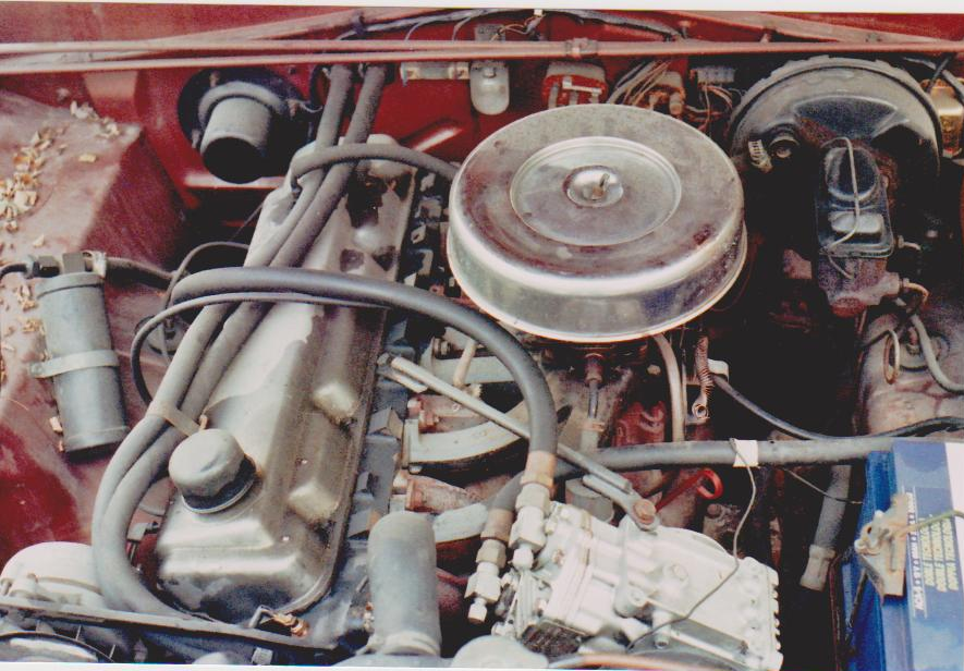 Engine of an 1971 Dodge 3.700 gt made in Villaverde factory , Madrid